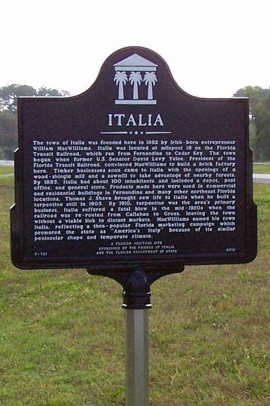 Florida Historical Marker at Itala